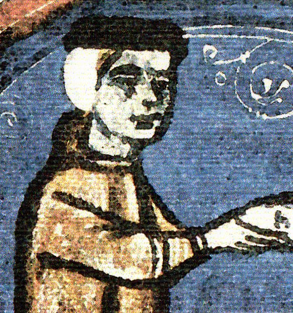 Thumbnail's detail depicting Jacopo da Lentini (1210-1260 about), notary of Frederick II and creator of sonnet